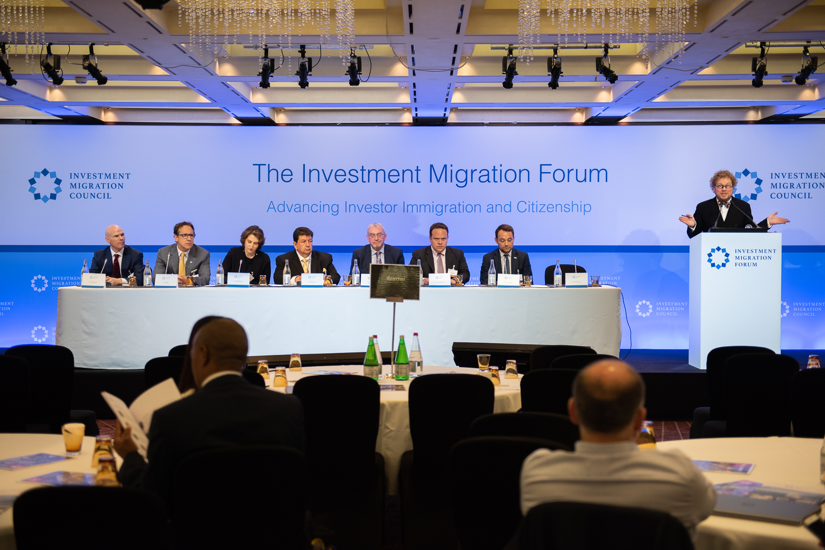 IMF Forum Panel Discussion